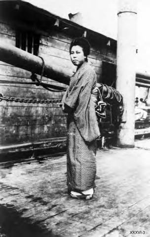 Japanese woman on board Kumeric enroute to Vancouver